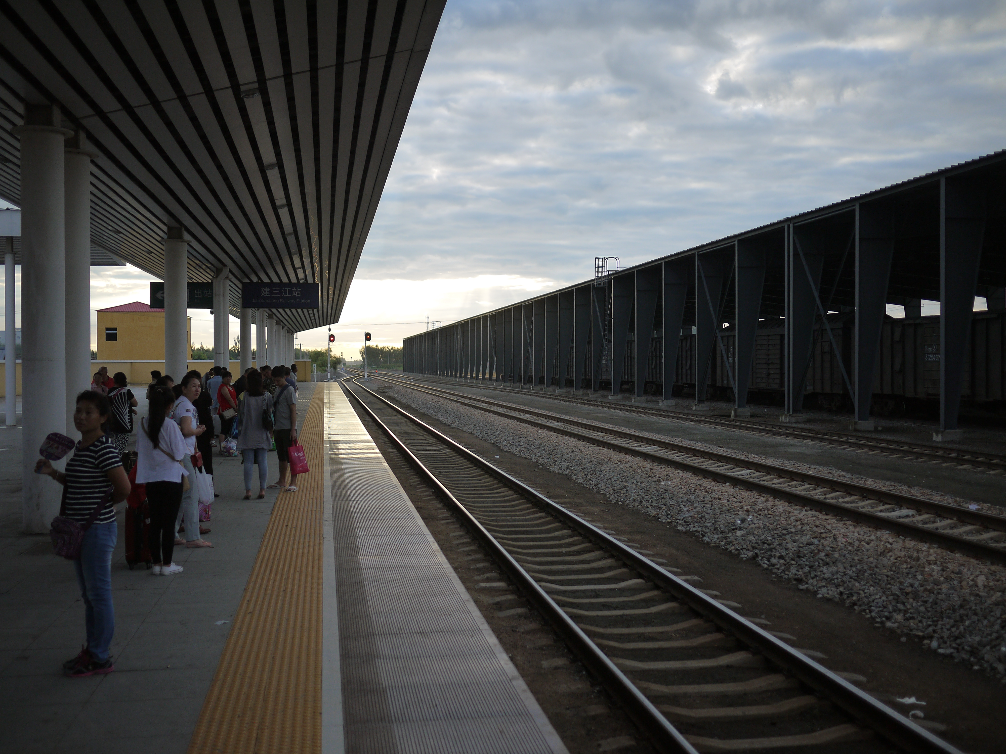 Jiansanjiang train station platform